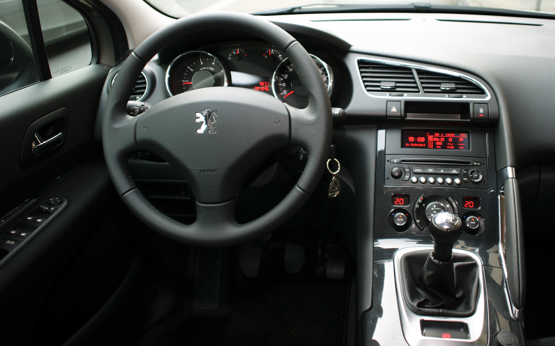 Peugeot 3008 (interior)